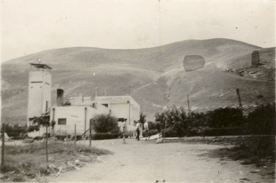 Kibbutz Beit Alfa in the '30s